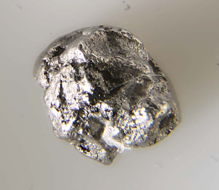 Outstanding (and big for the species) shiny silvery nugget of the extremely rare platinum mineral tulameenite from the type locality in Tulameent river (Princeton, British Columbia, Canada). Analyzed specimen by SEM/EDS by Alfredo Petrov.